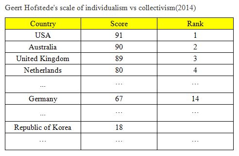 Hofstede's Individualism Scores